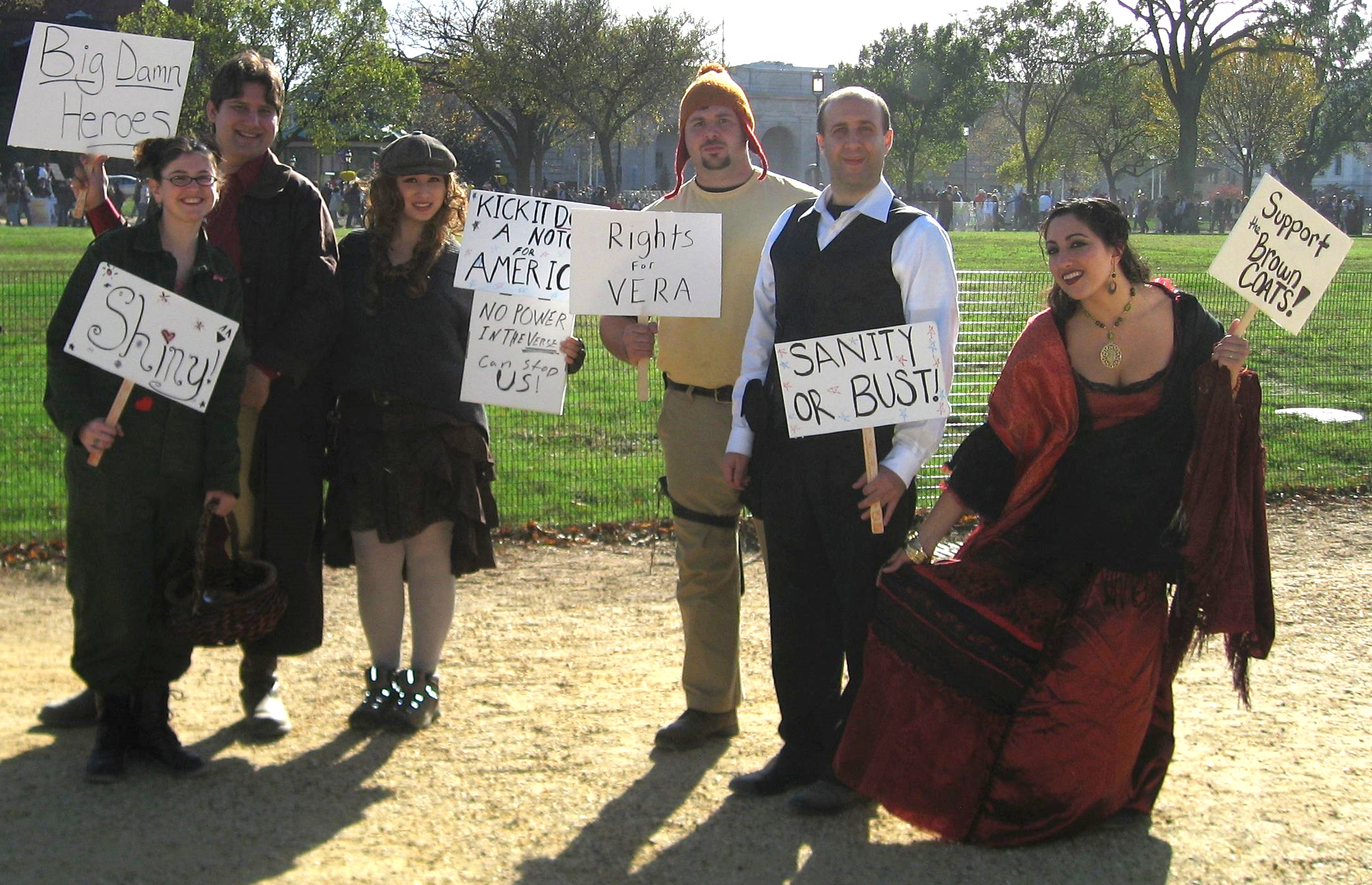 Big Damn Heroes, Shiny!, Kick it up a notch for America, No power in the Verse can stop us, Rights for Vera, Sanity or Bust, Support the Brown Coats. These Firefly fans looked great, and were giving out candy.